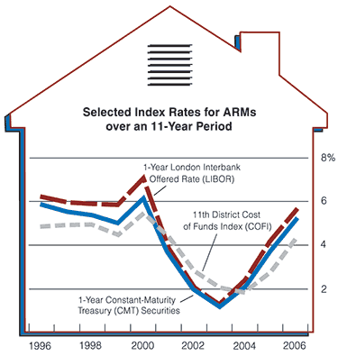 Common indexes used for Adjustable Rate Mortgages (ARMs) over an 11-year period (1996-2006). Shown: 1-year constant-maturity Treasury (CMT) securities, the Cost of Funds Index (COFI), and the London Interbank Offered Rate (LIBOR). To determine the interest rate on an ARM, lenders add a few percentage points to the index rate, called the margin.